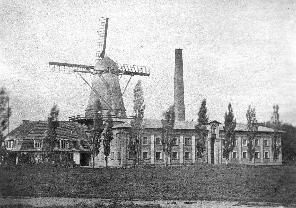 Vodroffs Mølle in Frederiksberg, Denmark